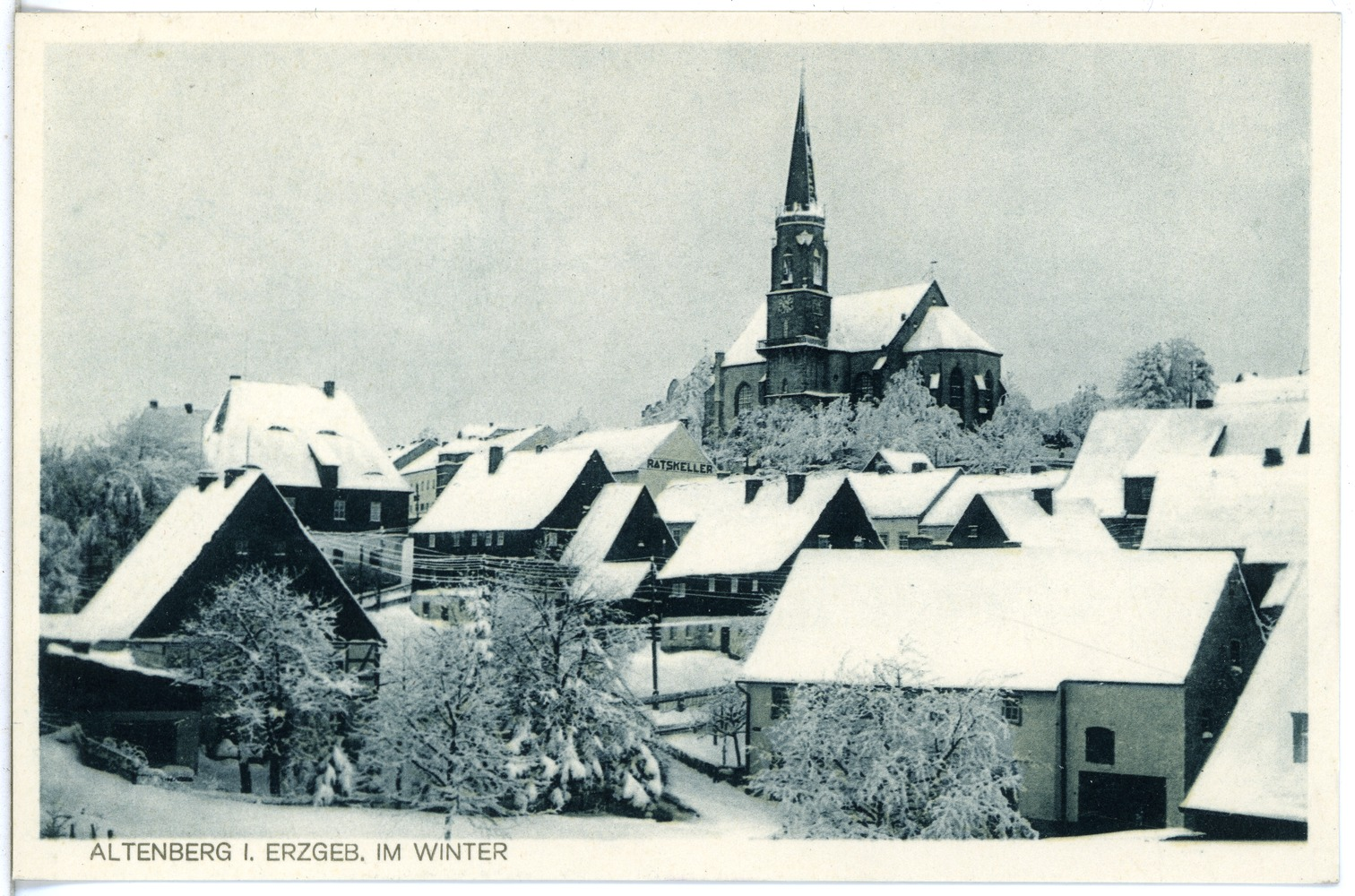 This postcard is from publisher Brück & Sohn in Meißen ( This postcard has a unique number 24549 and is available in a higher resolution at the publisher. This images was uploaded in a cooperation project between Wikipedians and the publisher.